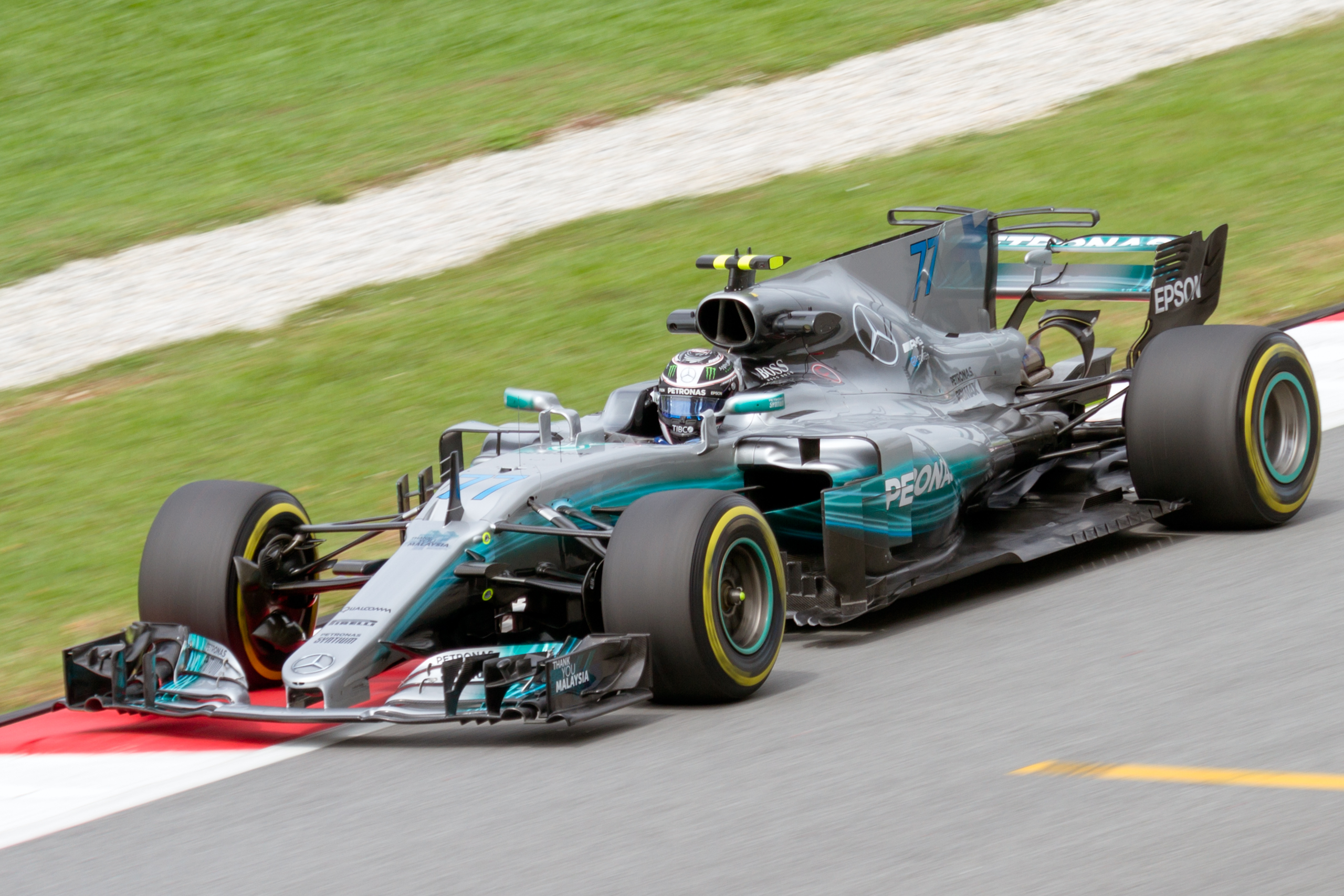 Formula One 2017 Rd.15 Malaysian GP: Valtteri Bottas (Mercedes)